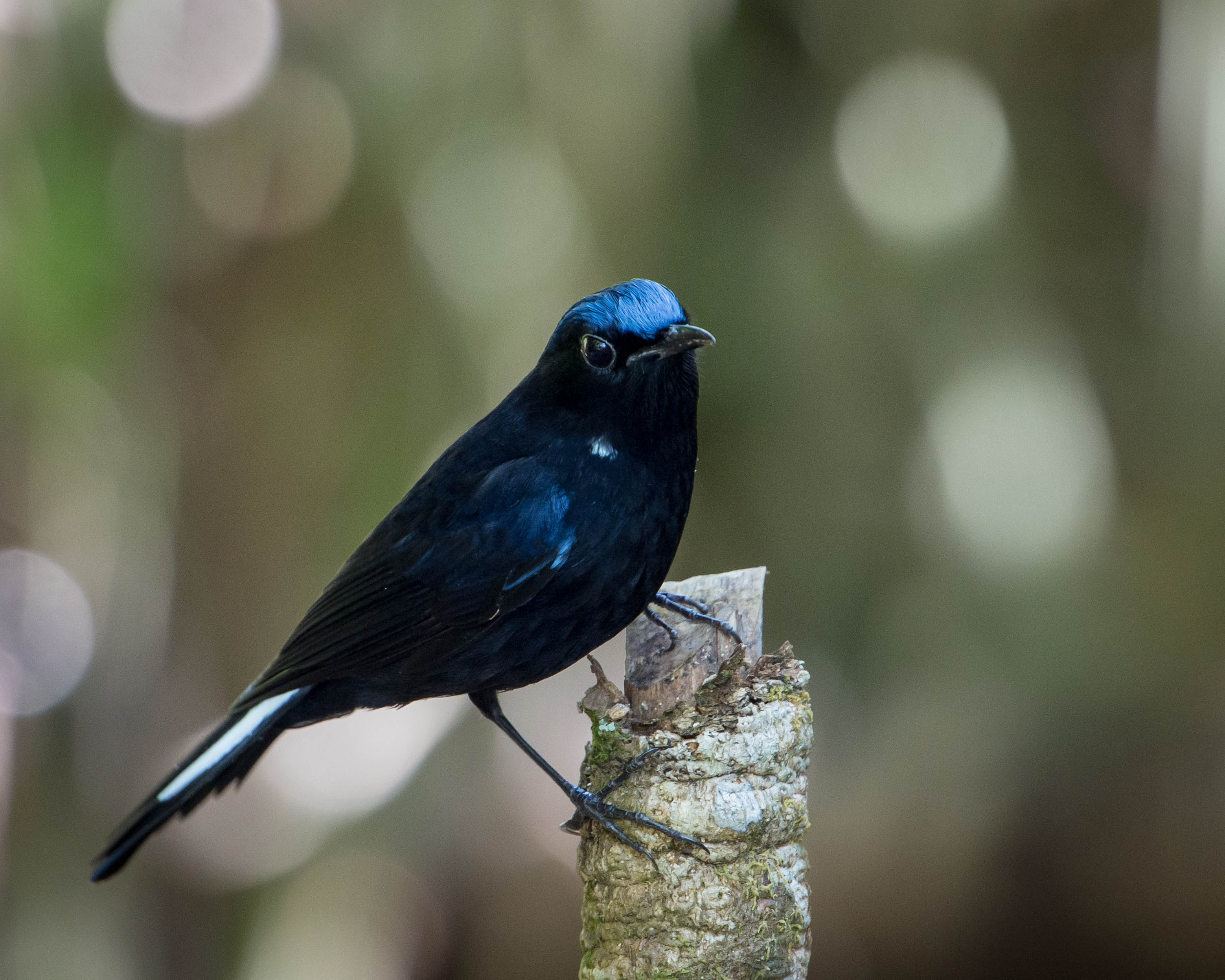 White-tailed Robin (Myiomela leucura) at Doi Lang, Chiang Mai Thailand